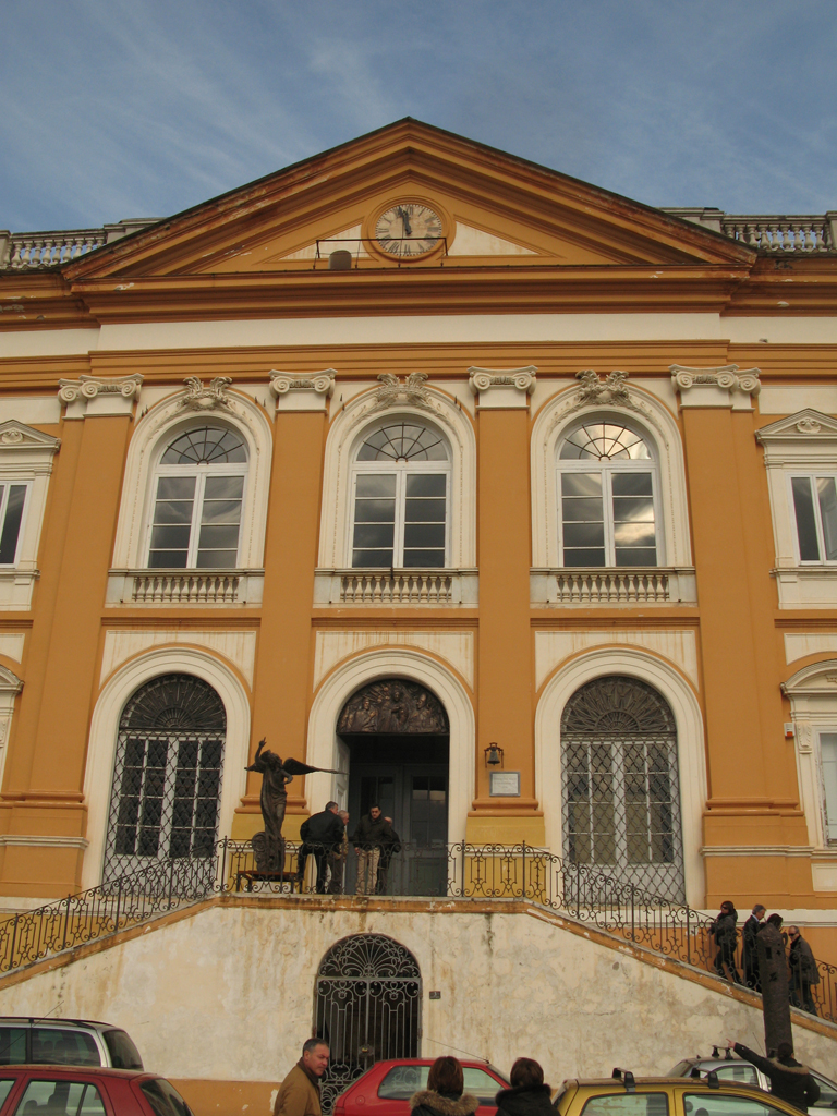 San Leucio - Palazzo del Belvedere:facade detail